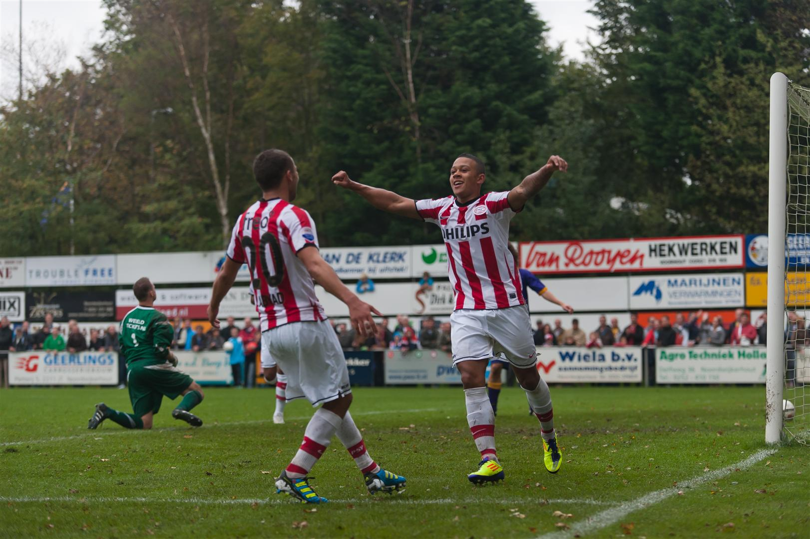 Zakaria Labyad and Memphis Depay celebrating a goal.